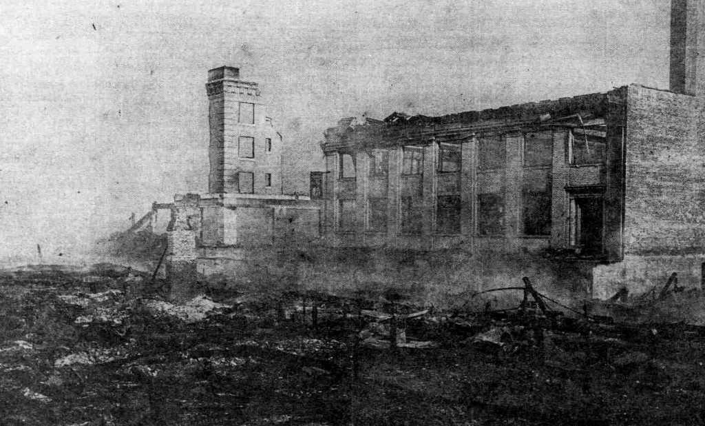 An image of the aftermath of a fire that occurred on December 8, 1922 in Astoria, Oregon. On the left is the remnants of the Weinhard Hotel and on the right is what remained of the Astoria National Bank.